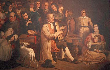 A Portrait of Turlough Carolan